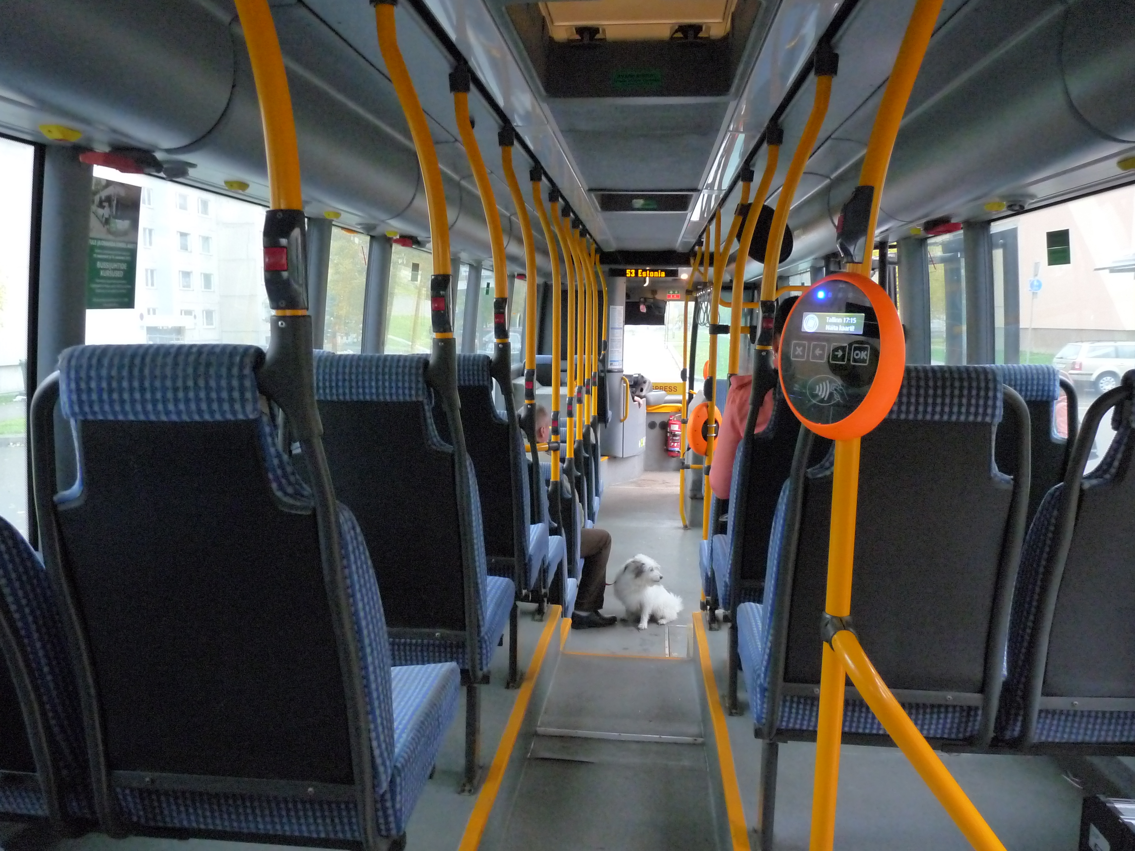 Scania bus interior